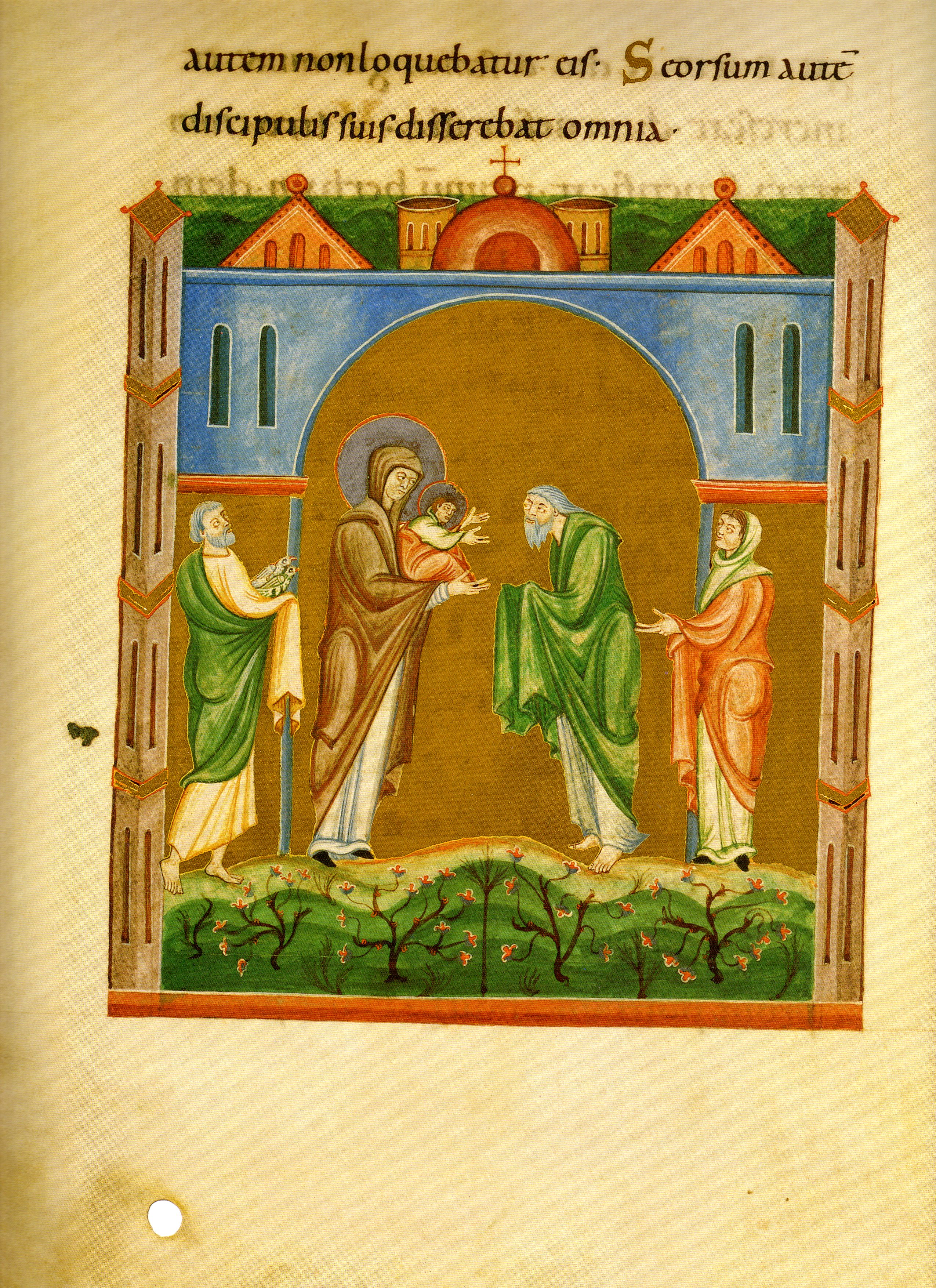 Folio 24 verso of the Salzburg Pericopes. The presentation of Jesus in the Temple.